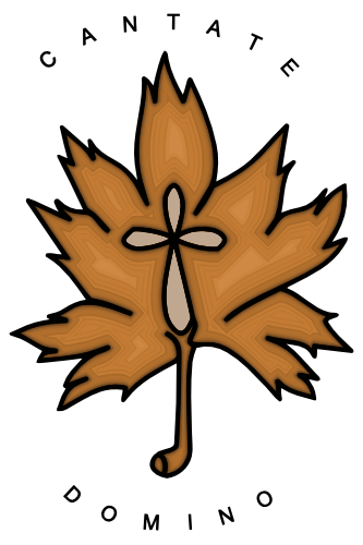 This is the Emblem of Canticum Novum, the Stellenbosch Dutched Reformed Church (Moederkerk).